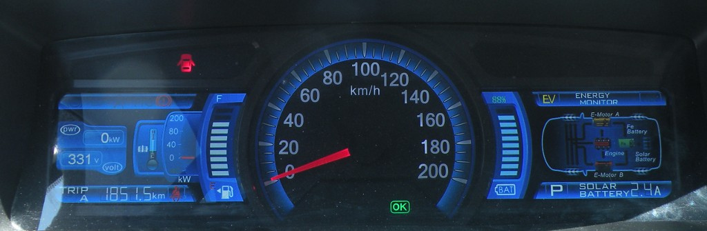 The dashboard display of a BYD F3DM plug-in hybrid.